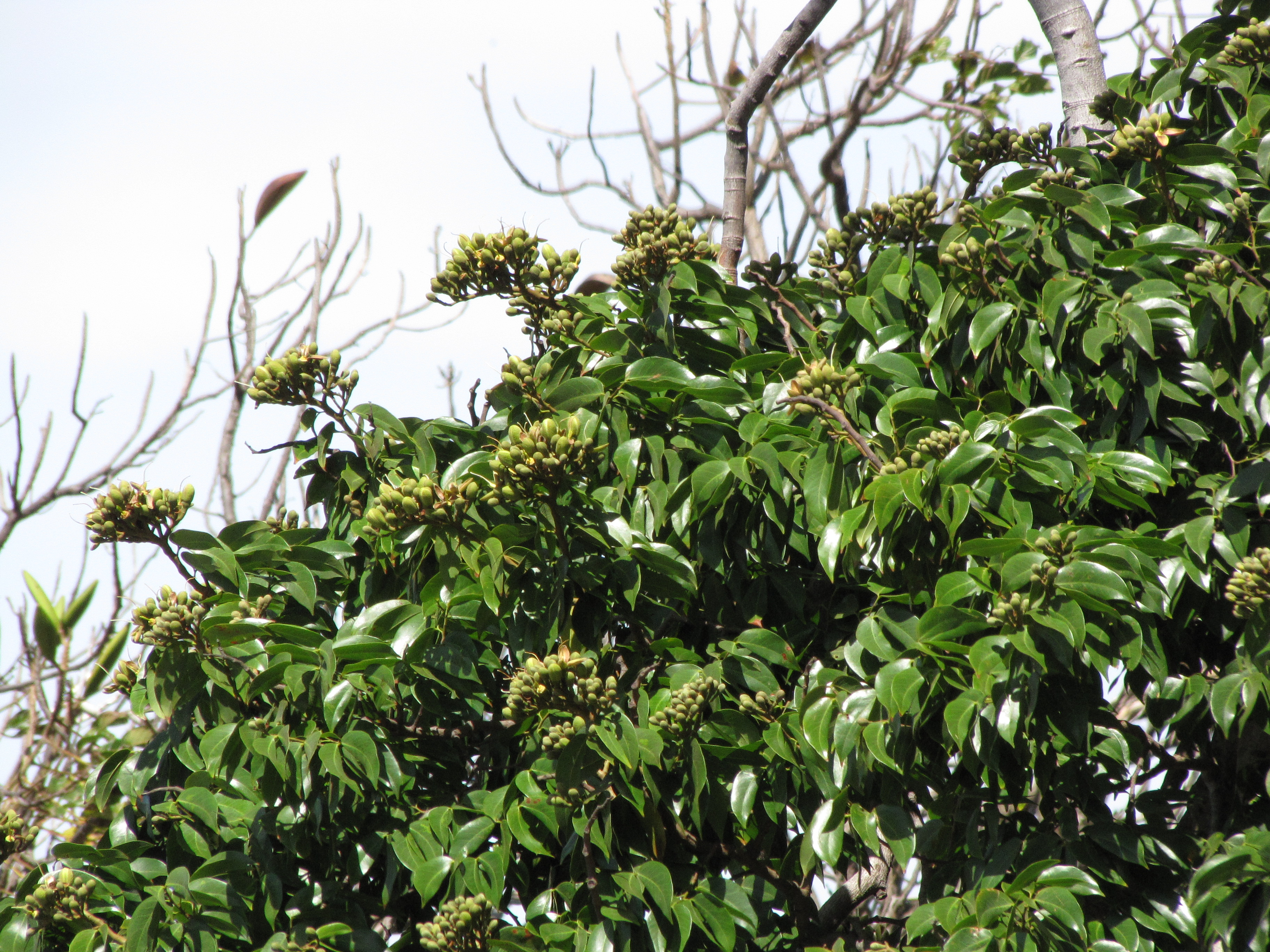 Hymenaea courbaril (Jatoba, West Indian locust tree, stinky toe tree) Flower buds and leaves at West Main Wailuku, Maui, Hawaii. July 20, 2009 #090720-3193 Image Use Policy